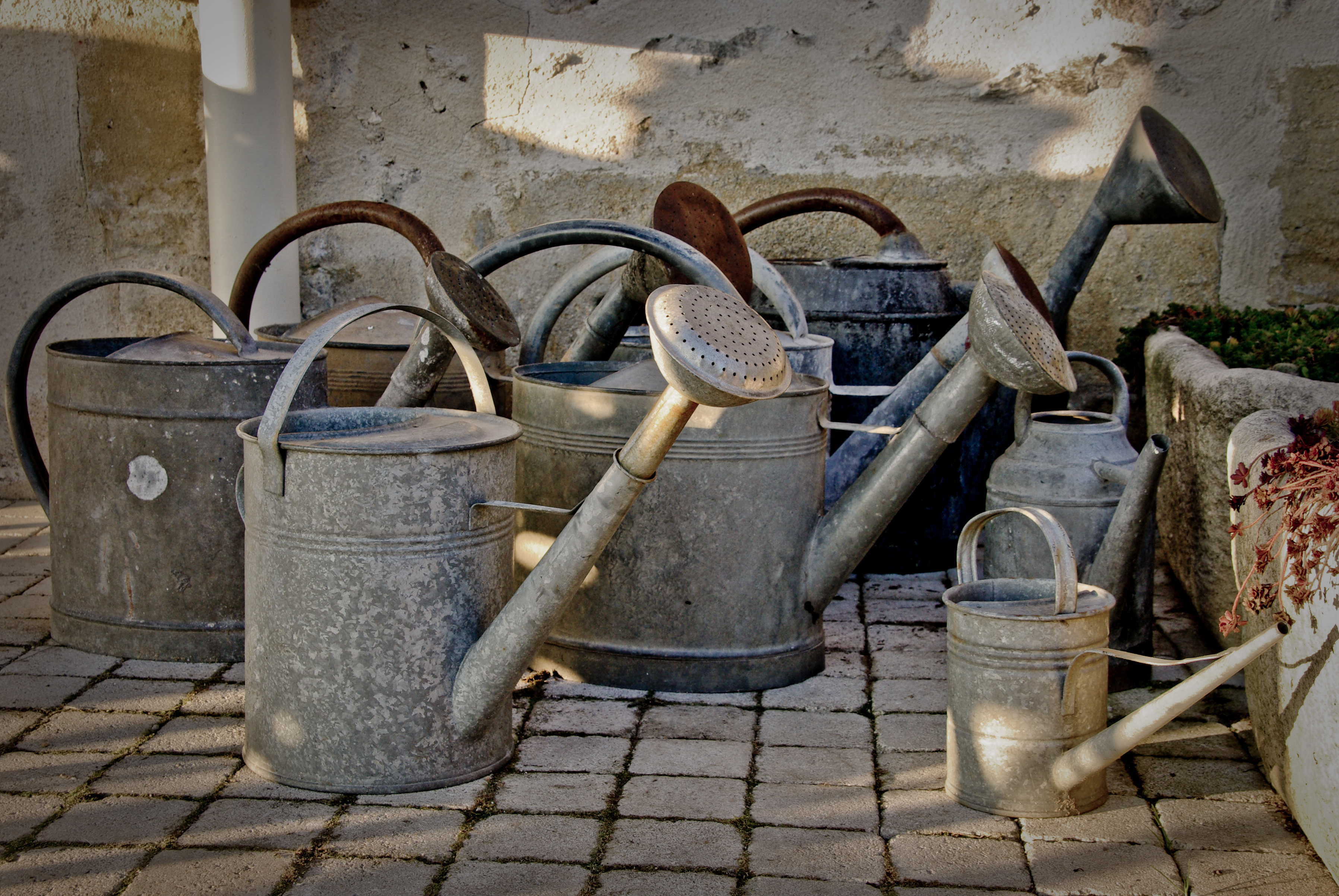 A collection of watering cans of assorted sizes.